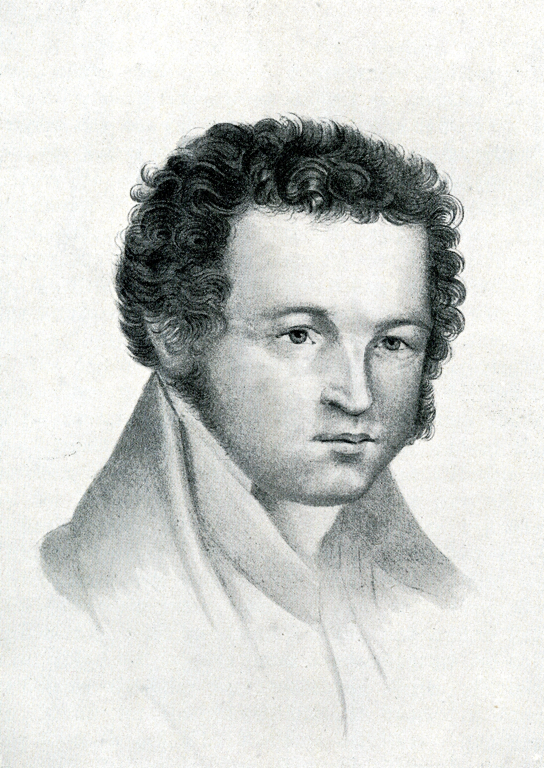 Joseph Kopp, Professor for Classical philology at the University of Erlangen-Nuremberg from 1827 until his death.